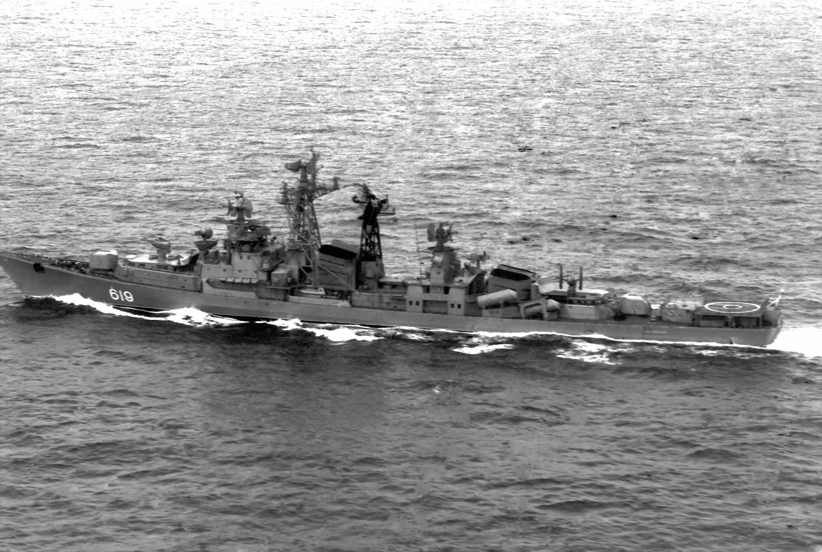 A port view of the Soviet project 61-MP large anti-submarine ship (NATO code - modified Kashin Class Destroyer) Stroinyi, displaying hull number 619. (Released to Public)